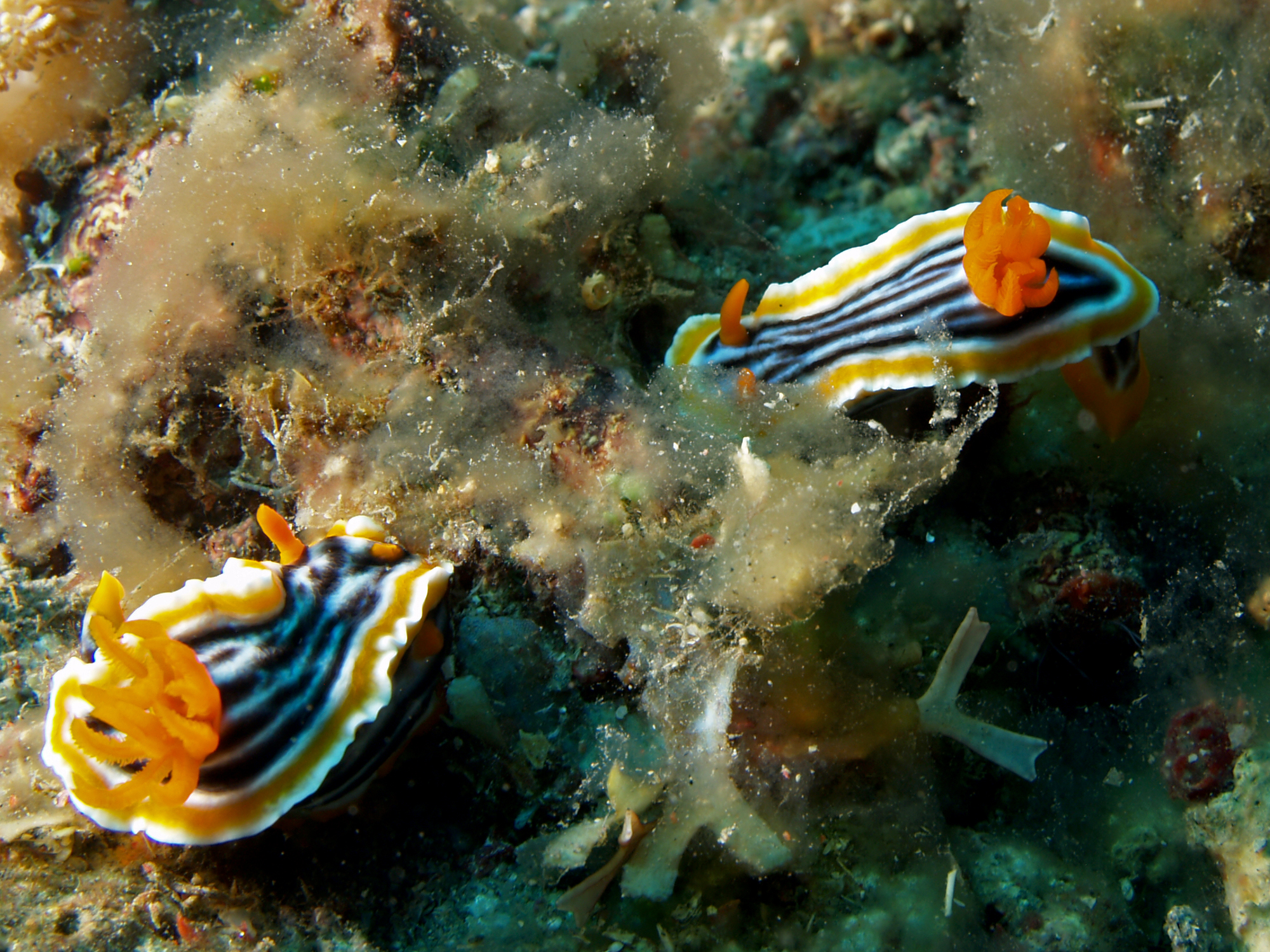 Chromodoris magnifica (Nudibranch)